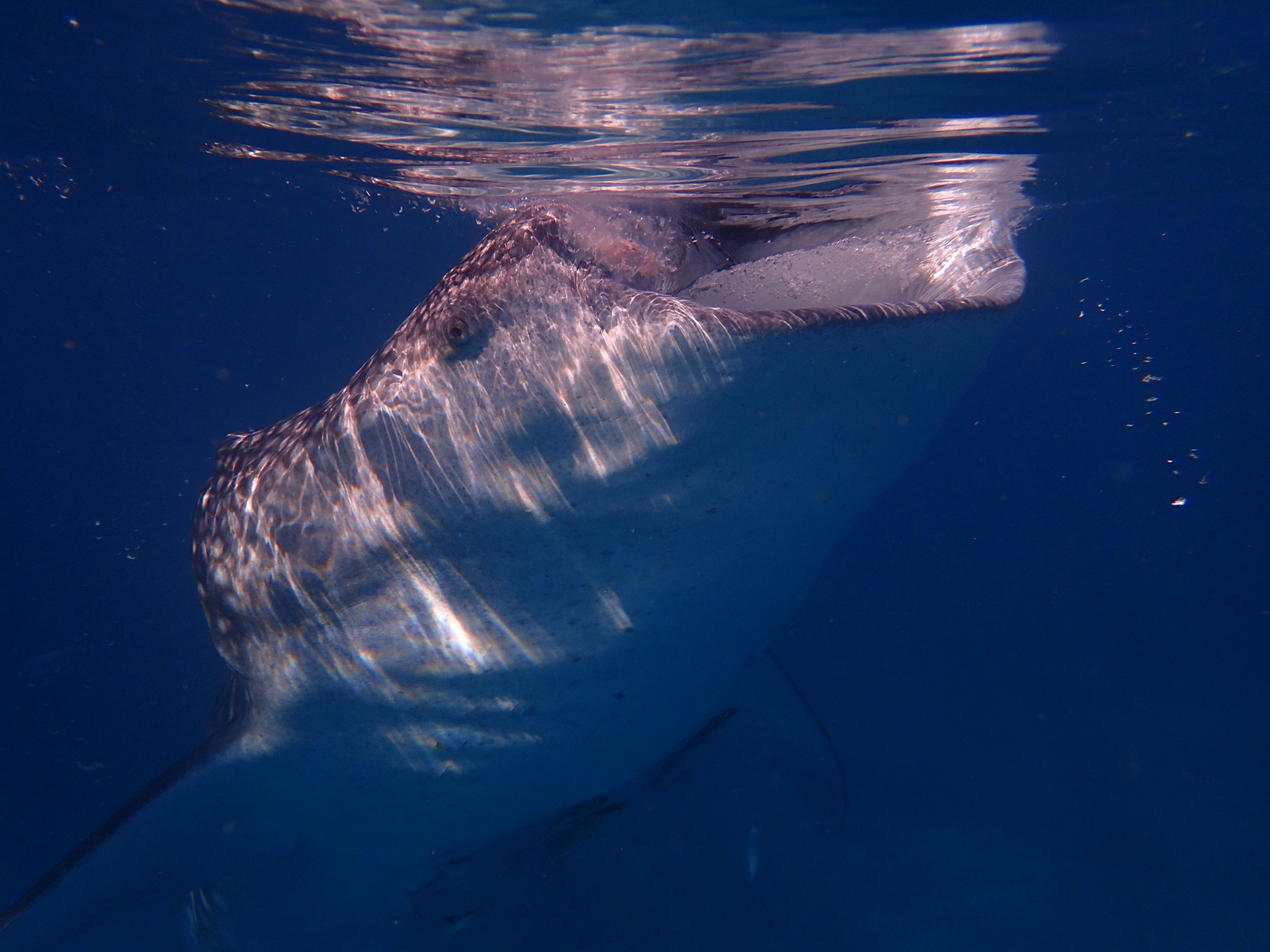 Juvenile whale shark filter feeds on baby shrimp